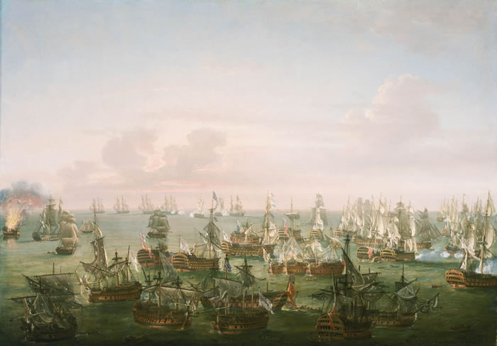 Battle of Trafalgar, 21 October 1805: End of the Action by Nicholas Pocock, c. 1808. accession number = BHC0549